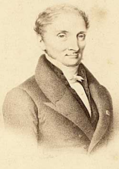 portrait of Pierre-Jean Robiquet at the height of his academic career, probably somewhere in between 1825 and 1830, photographic reproduction established by the family in the whereabouts of 1870